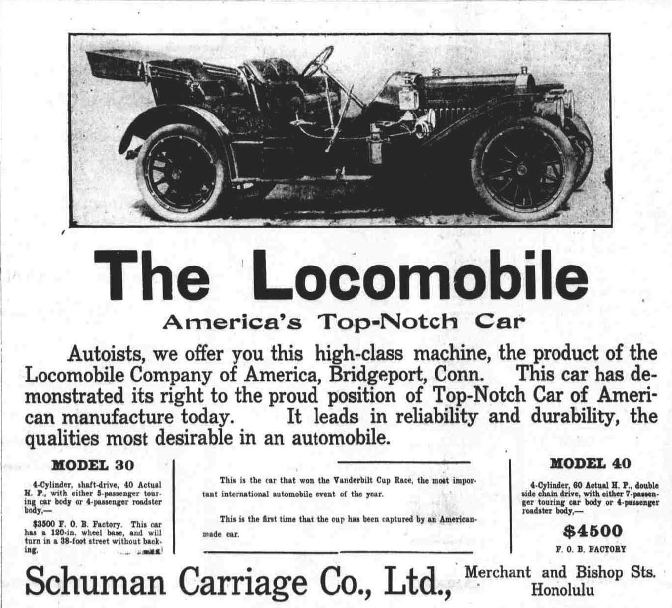 An advertisement for the Locomobile by the Schuman Carriage company in Hawaii. The Locomobile Company of America manufactured automobiles from 1899 and ended in 1929 after the failure of the parent company Durant Motors. The Schuman Carriage company introduced automobiles to Hawaii and sold them in its dealerships for years. The long-time Kamaaina company closed in 2004, after serving Hawaii's residents for 111 years. Excerpt from ad: "Autoists, we offer you this high-class machine, the product of the Locomobile Company of America, Bridgeport, Conn. This car has demonstrated its right to the proud position of Top-Notch Car of American manufacture today. It leads in reliability and durability, the qualities most desirable in an automobile." Evening Bulletin, February 8, 1909, 3:30 EDITION, Page 6, Image 6 From the University of Hawaii at Manoa Library